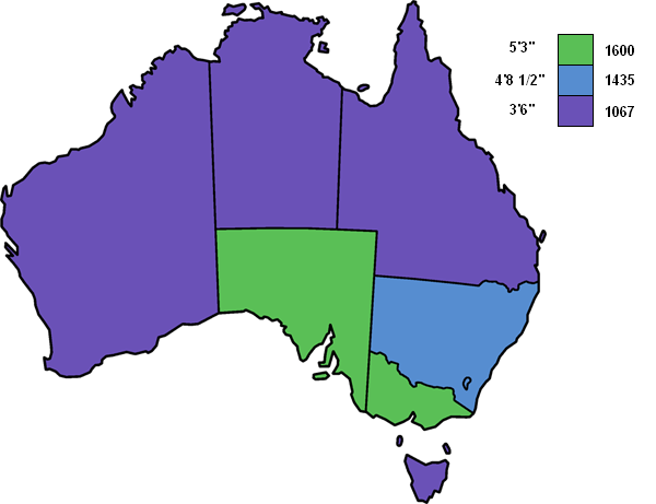 Original rail gauges of the Australian colonies (many cities are now linked by standard gauge), using key and colours from world map. made from Golbez's Image:Australia states blank.png